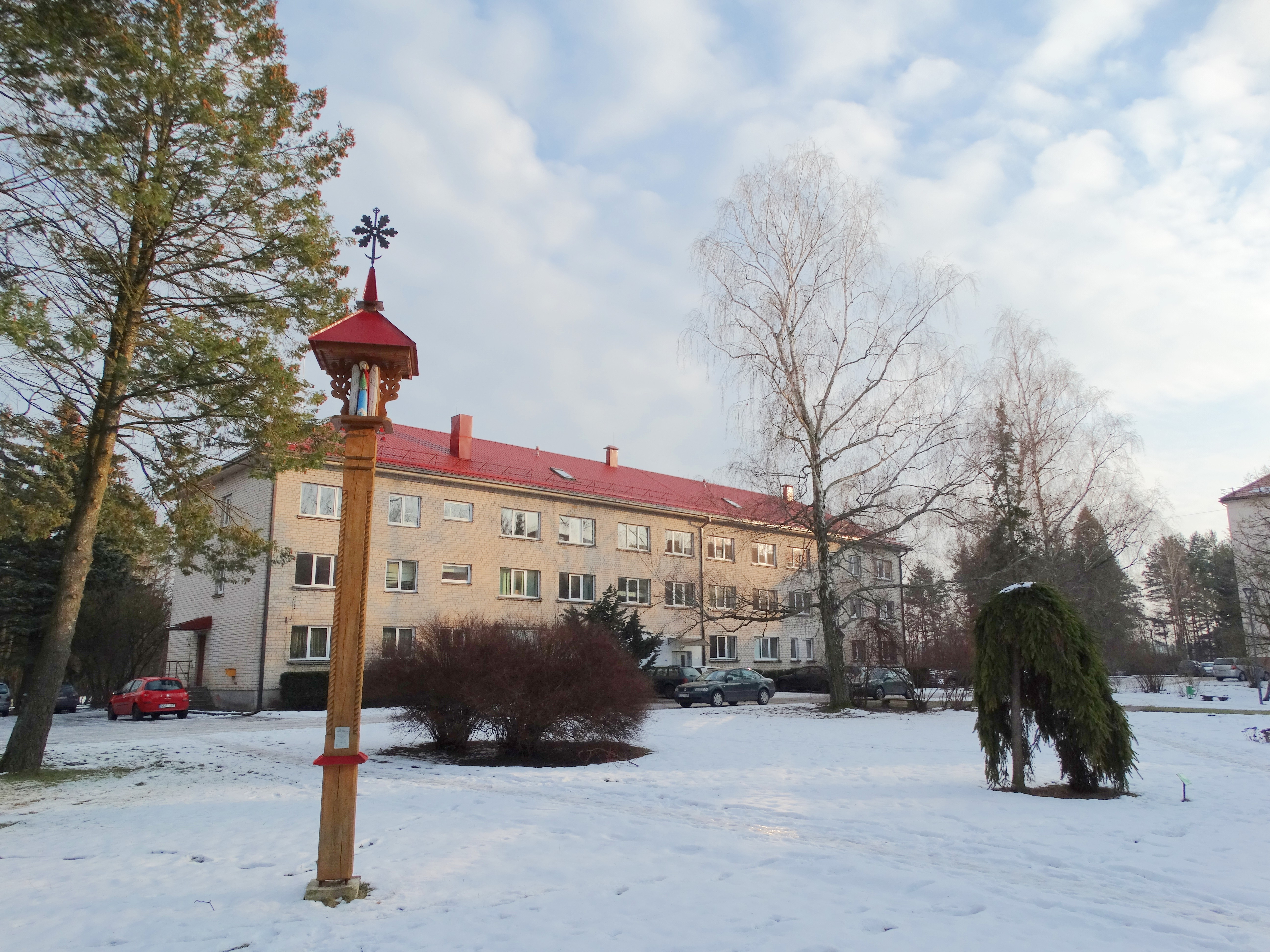 Girionys, Kaunas District, Lithuania